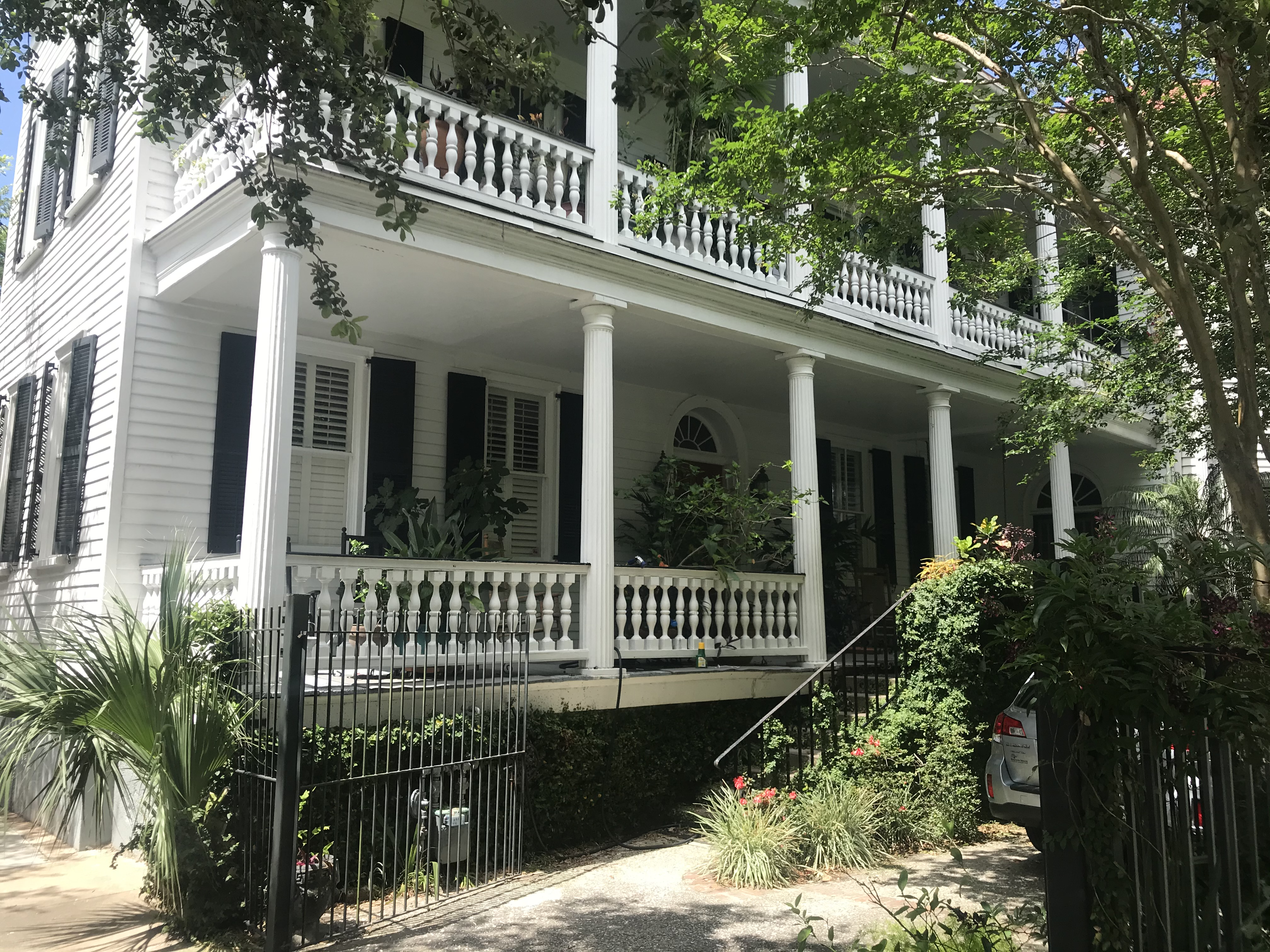 A Charleston single built in the early nineteenth century by Supreme Court Justice William Johnson.